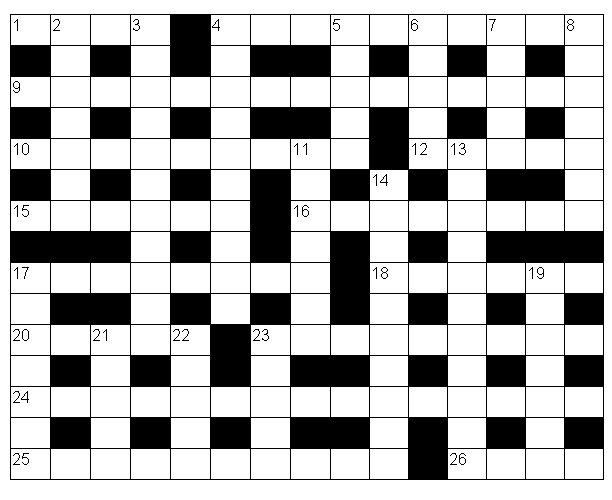 Sample British-style crossword grid